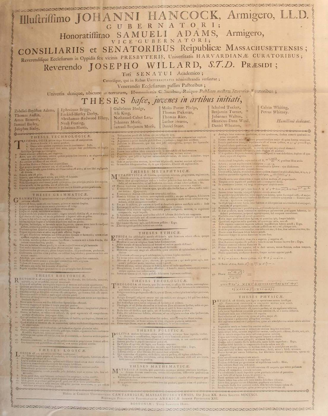 Broadside announcing Commencement Day Exercises, Harvard University, July 20 1791